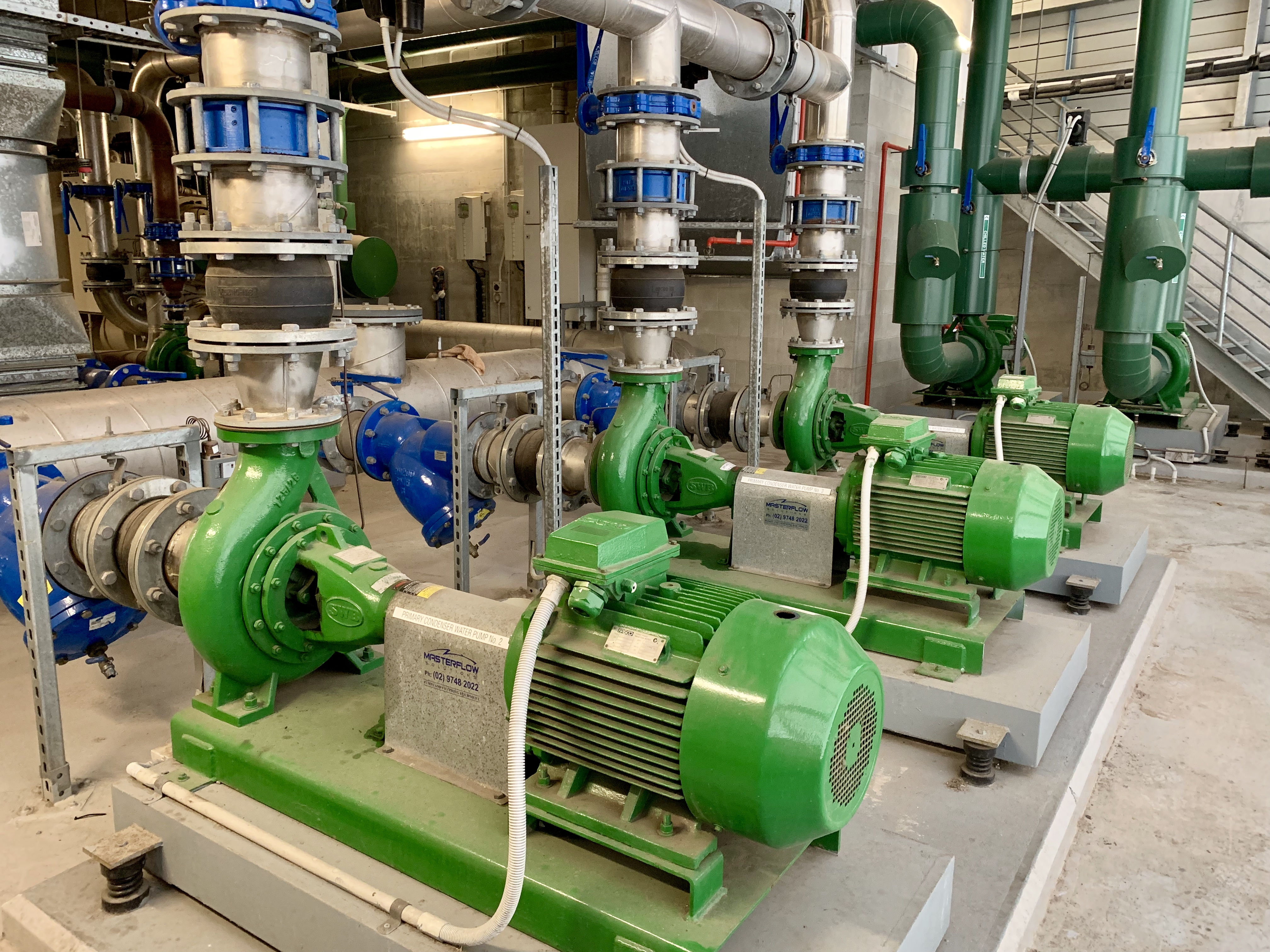 Condenser water pumps at the office building in Brisbane, Queensland